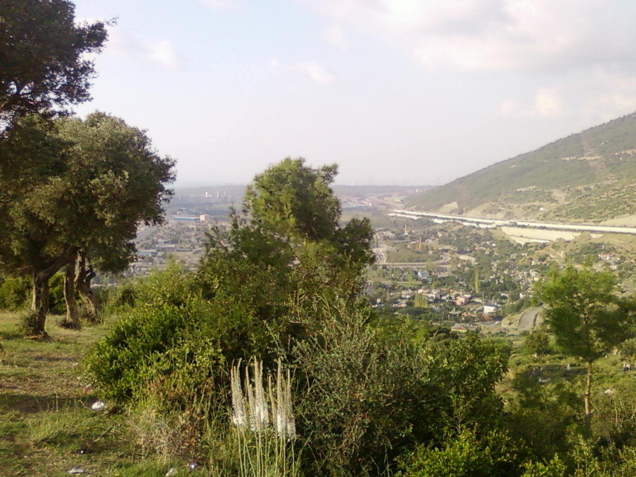 A view from Sarıseki, İskenderun